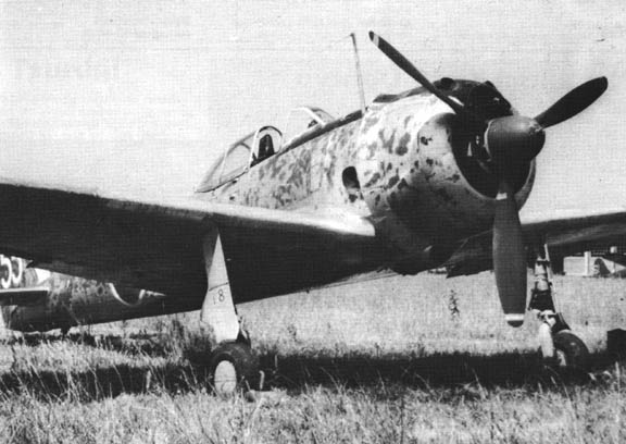 The Nakajima Ki-43 Hayabusa (隼, "Peregrine Falcon") was a single-engine land-based tactical fighter used by the Imperial Japanese Army Air Force in World War II.